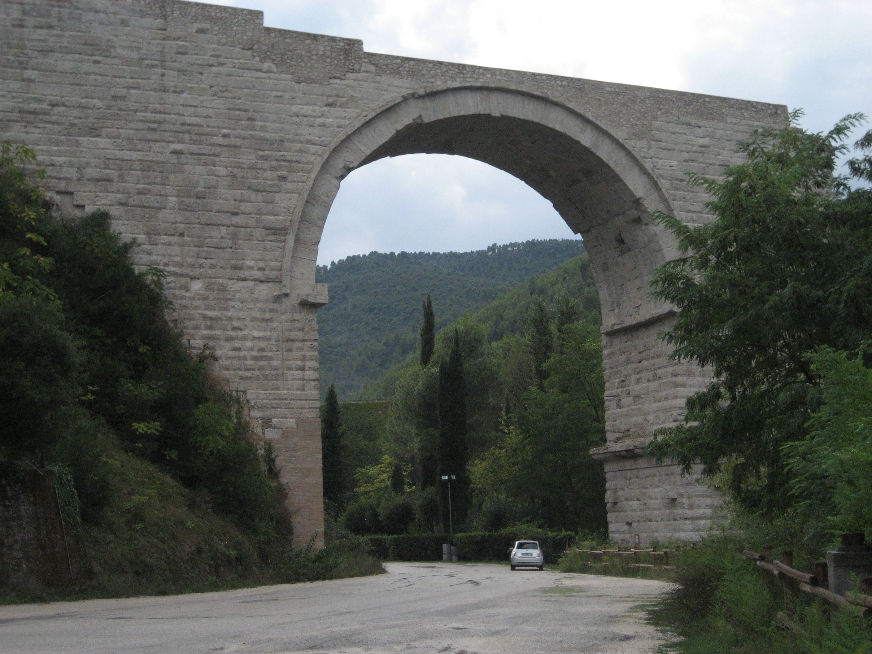 Roman Bridge of Augustus at Narni, Italy